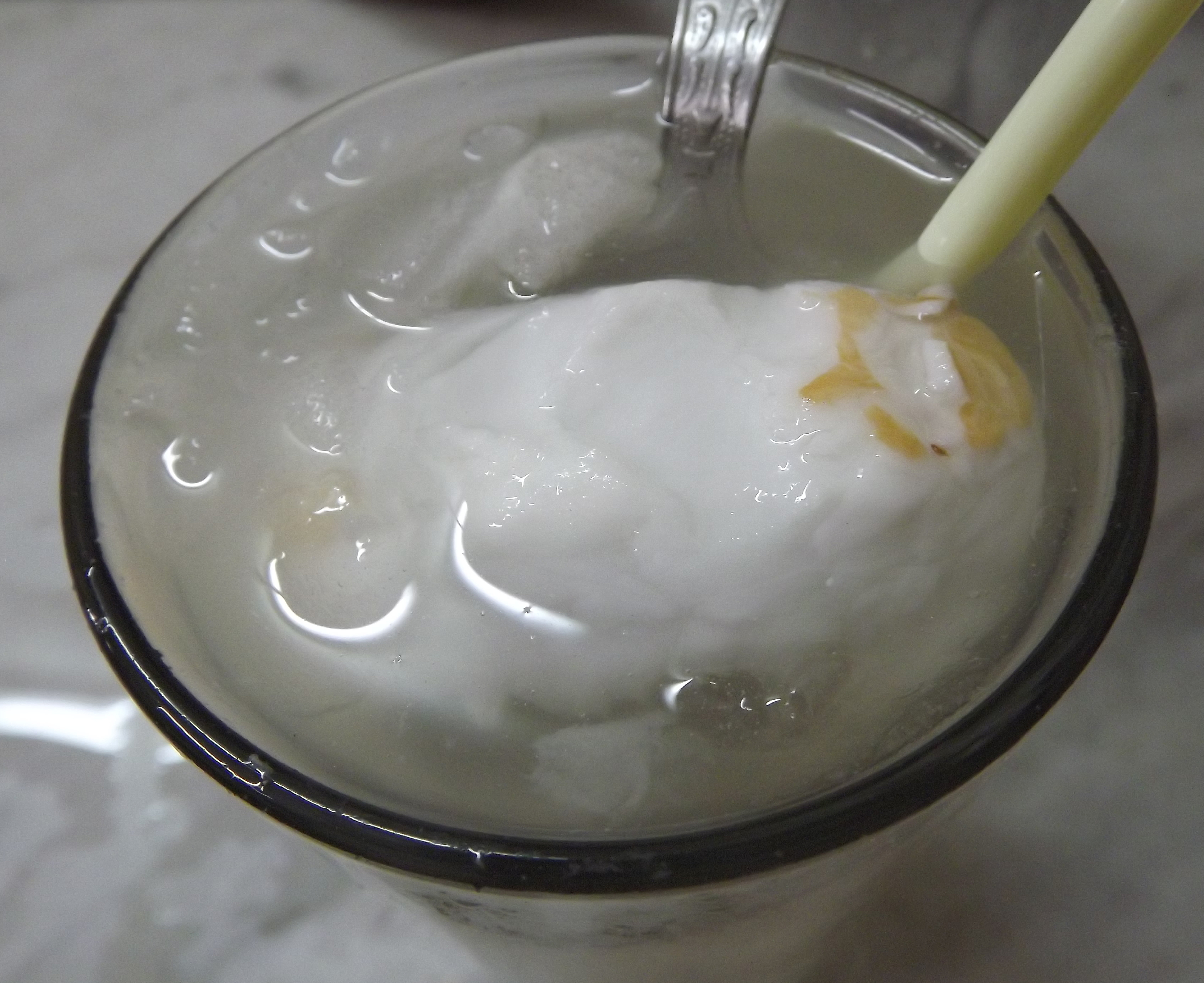 Daab Sharbat - Tender Coconut Drink at Paramount, Calcutta (Kolkata)